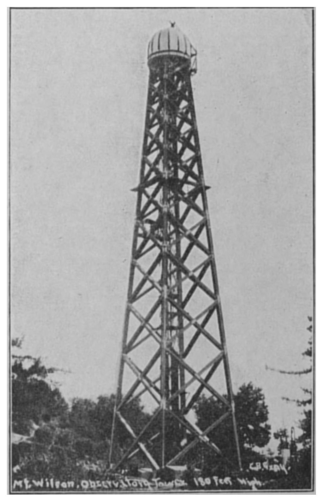 The High "Tower" Telescope on Mount Wilson.